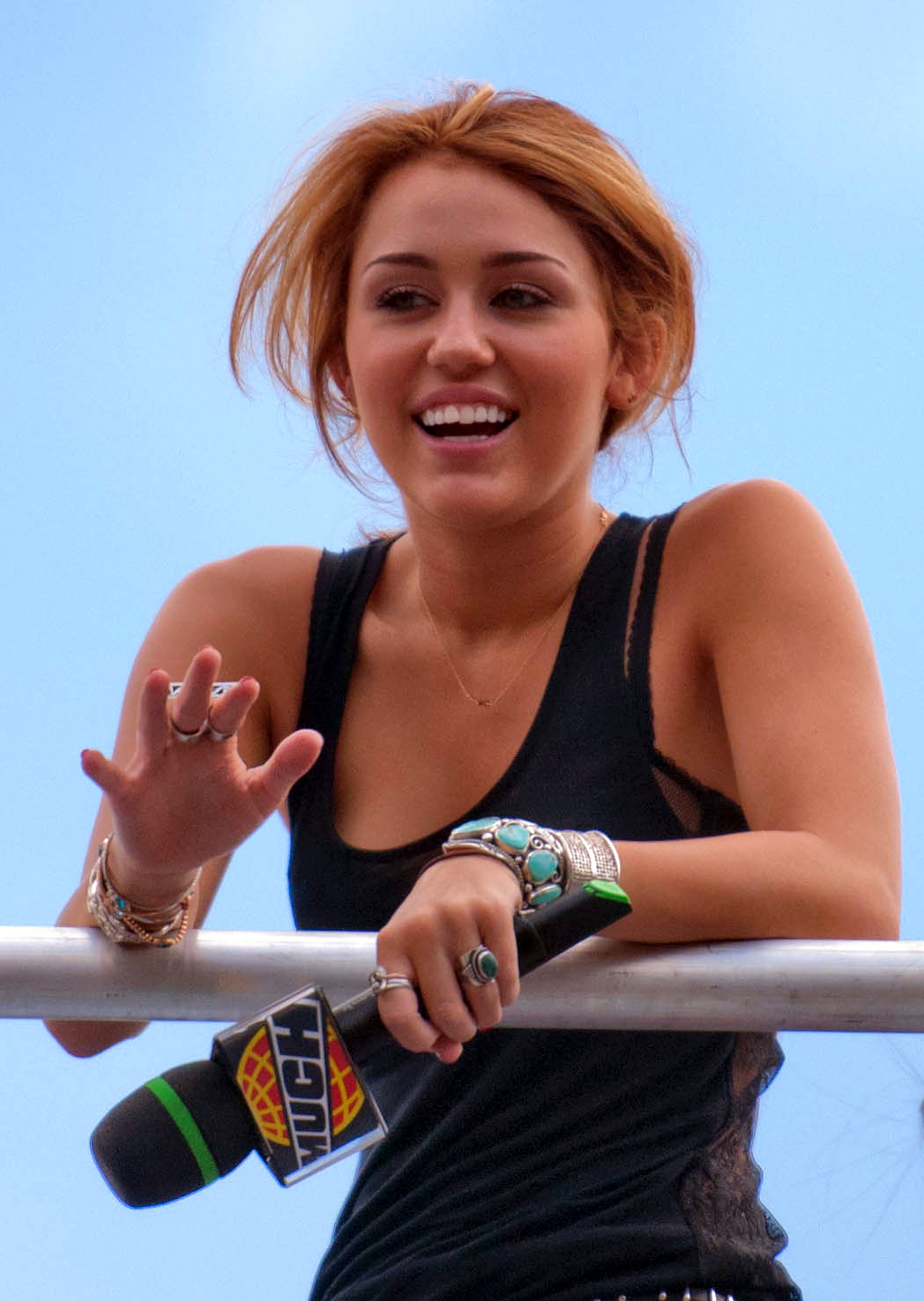 Miley Cyrus at MMVA Soundcheck.